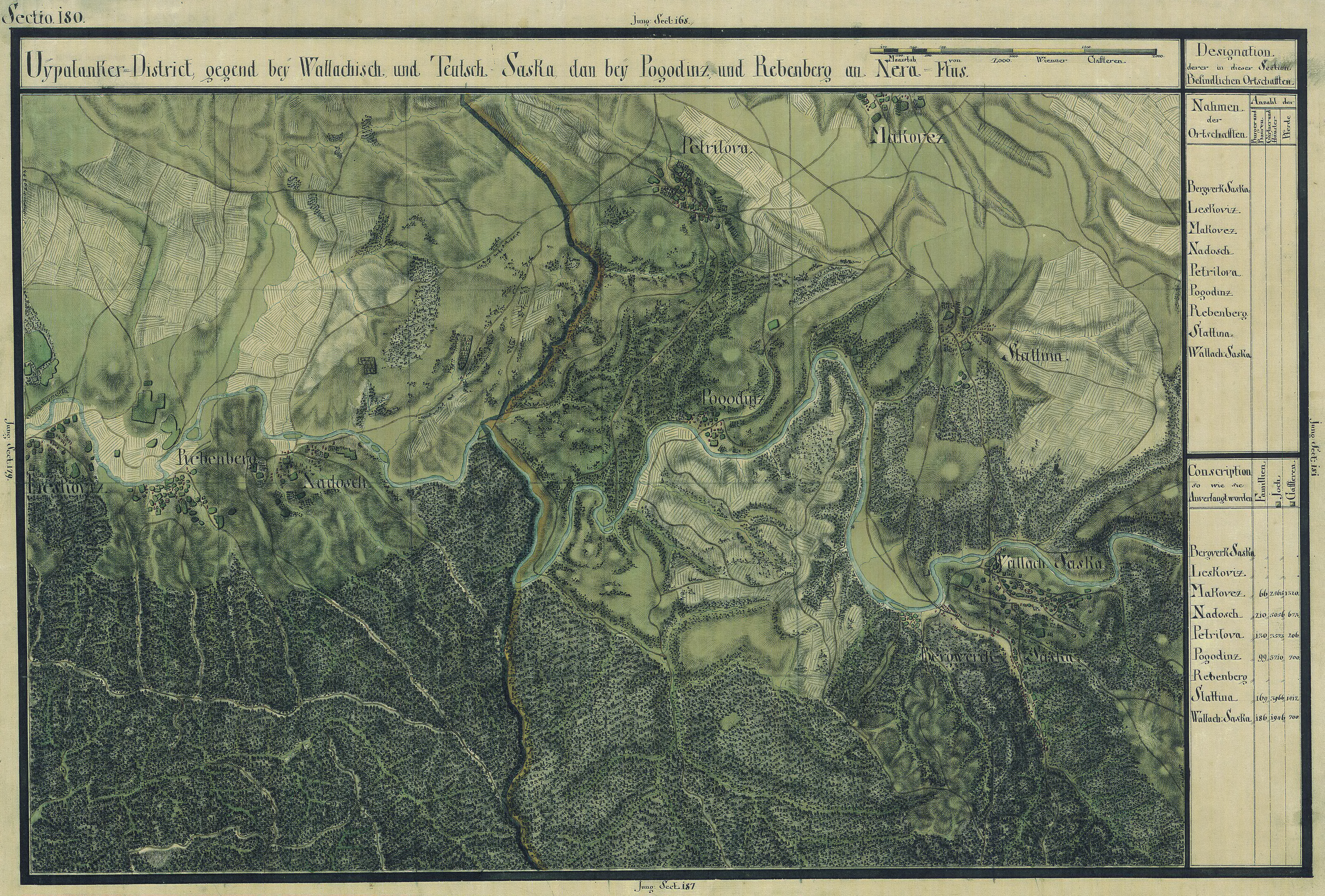 The Banat region in the cadastral maps: Josephinische Landesaufnahme, 1769-72. Josephinische Landaufnahme pg180